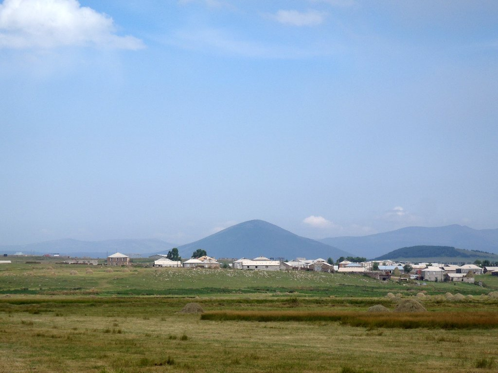 Around Ninotsminda, Georgia